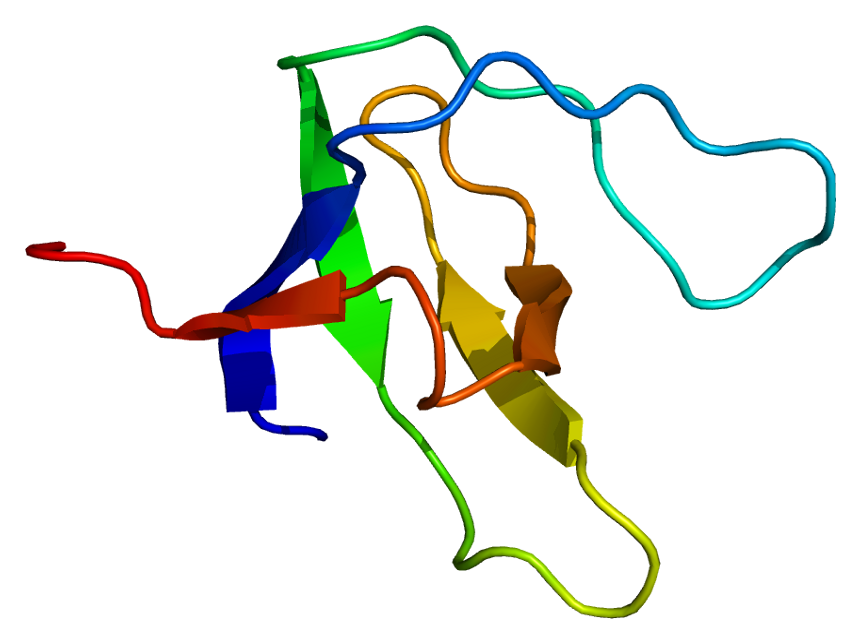 Structure of the NPHP1 protein. Based on PyMOL rendering of PDB 1s1n.